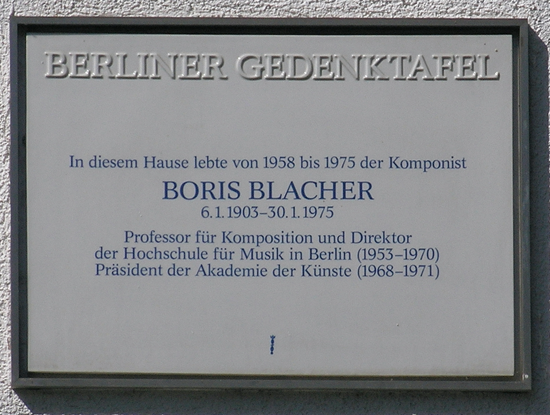 Berlin memorial plaque, Boris Blacher, Kaunstraße 6, Berlin-Zehlendorf, Germany Koordinate:52°26′5.9″N 13°13′56.4″E / 52.434972°N 13.232333°E